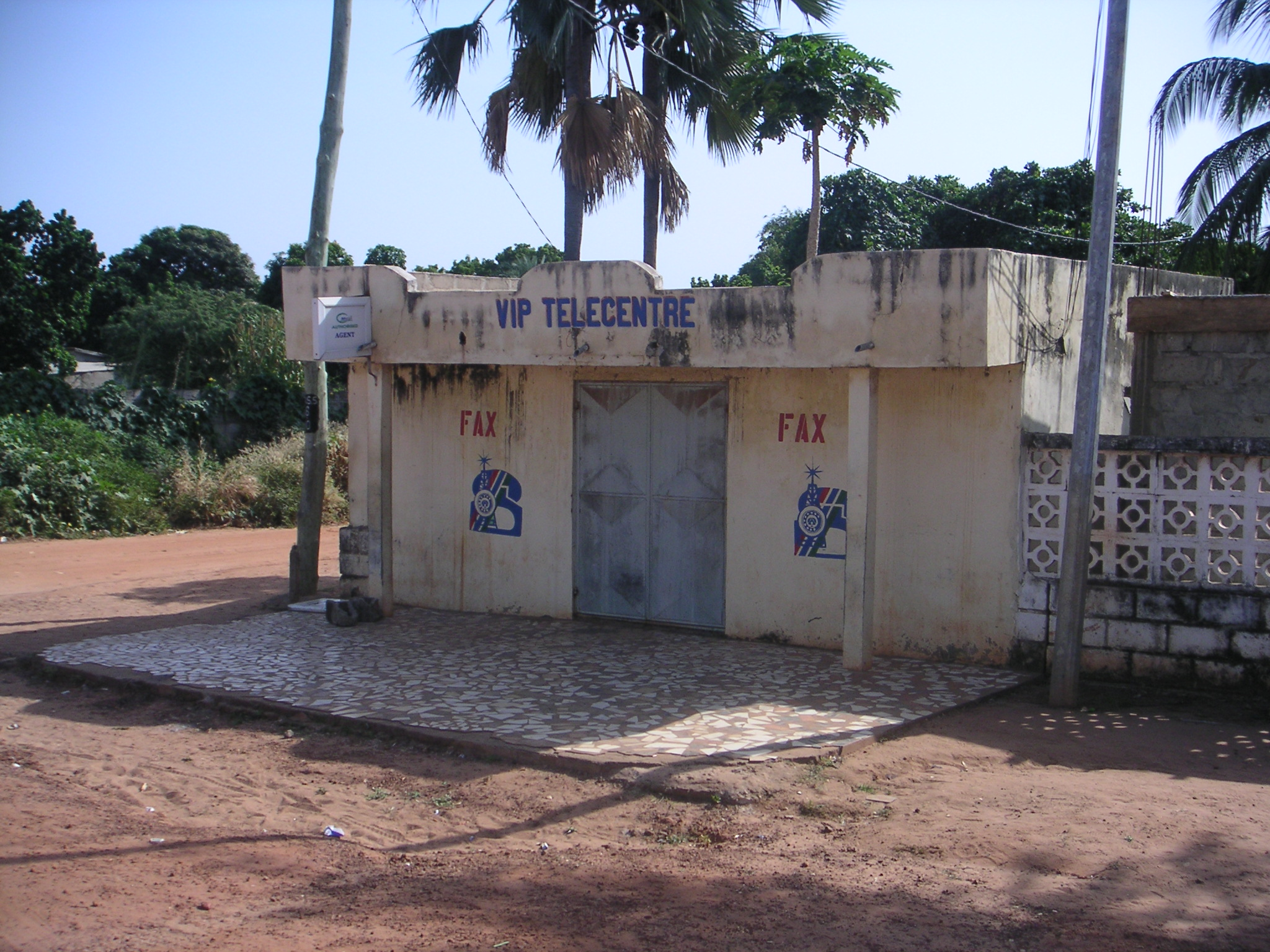 Telecentre, Fajara, The Gambia. Photo: Soman